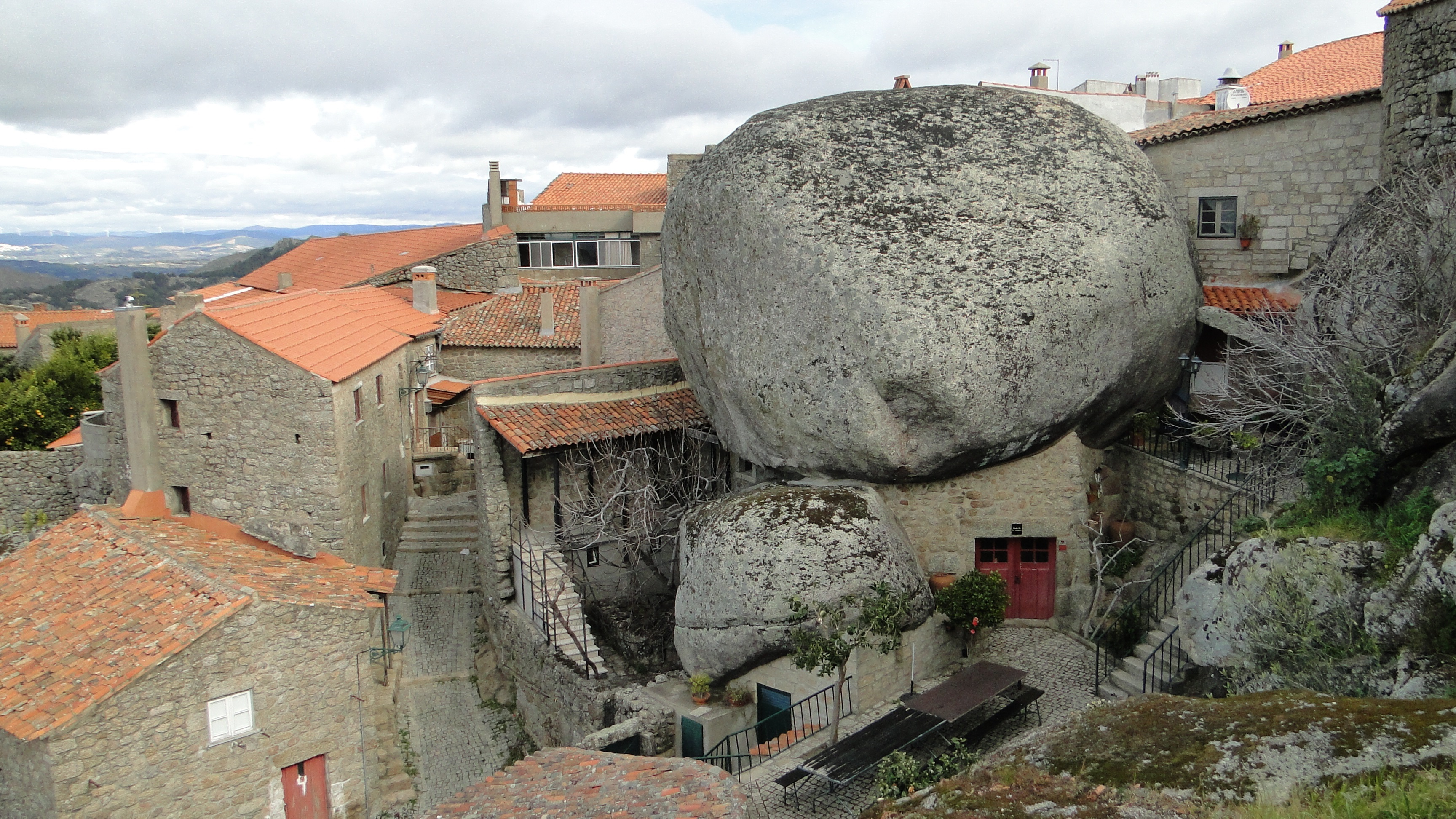 Monsanto (Idanha-a-Nova)-Portugal